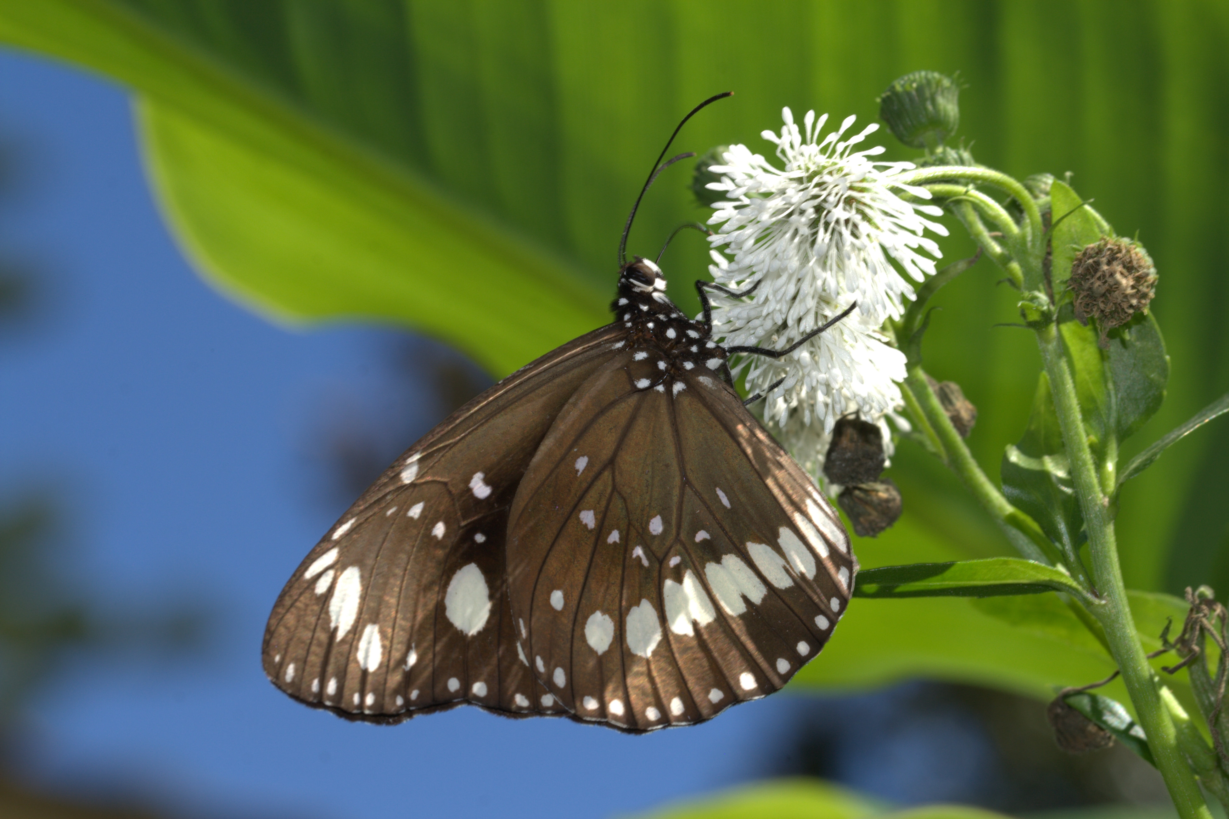 Euploea core corinna in Sydney